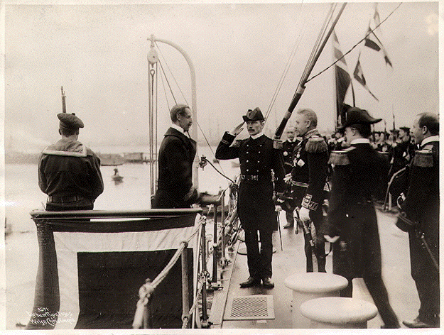 King Haakon VII boarding the Norwegian coastal defence ship HNoMS Norge.